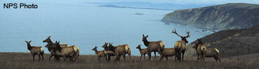 A herd of tule elk at Point reyes National Seashore.